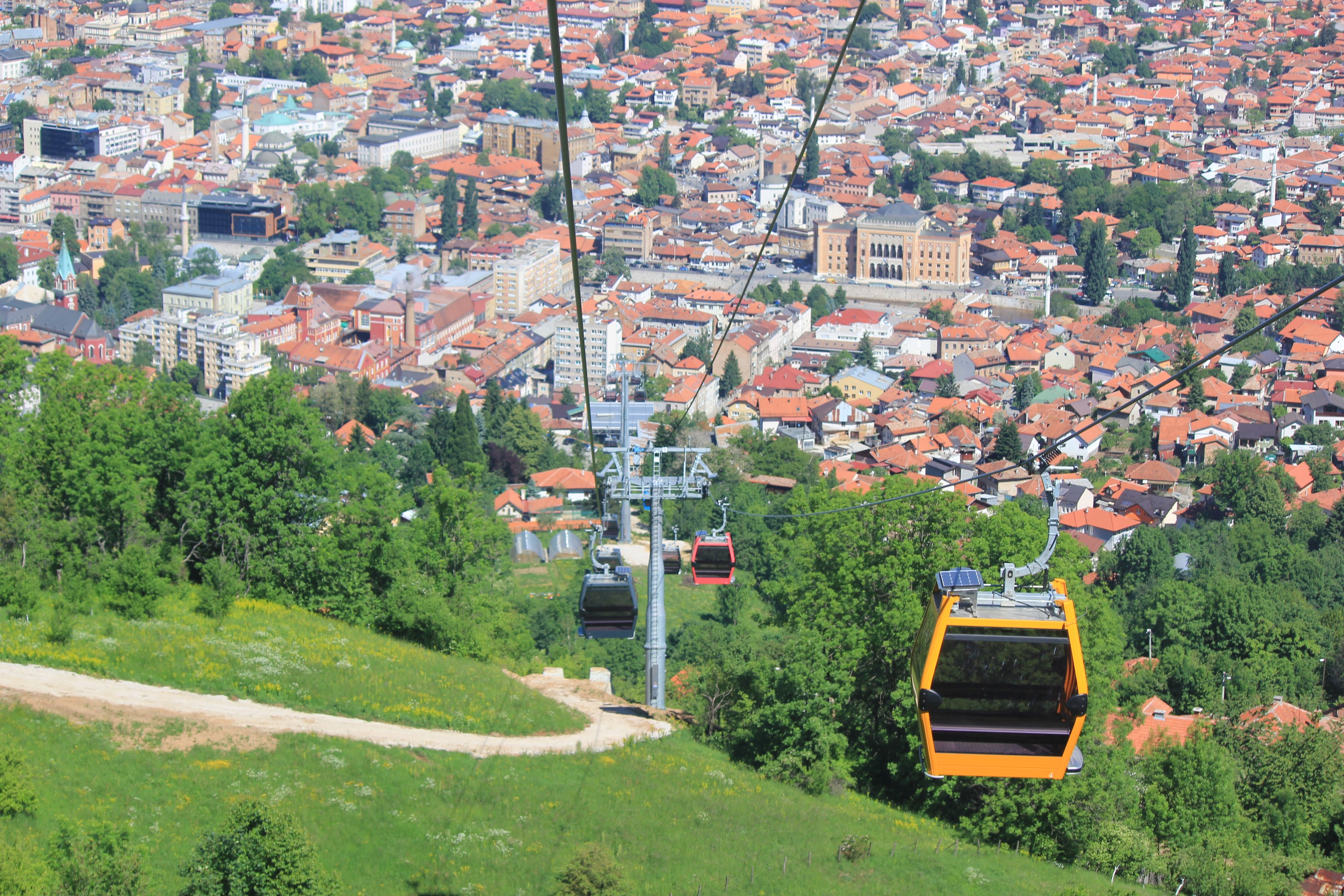 Trebević Cableway in Sarajevo.